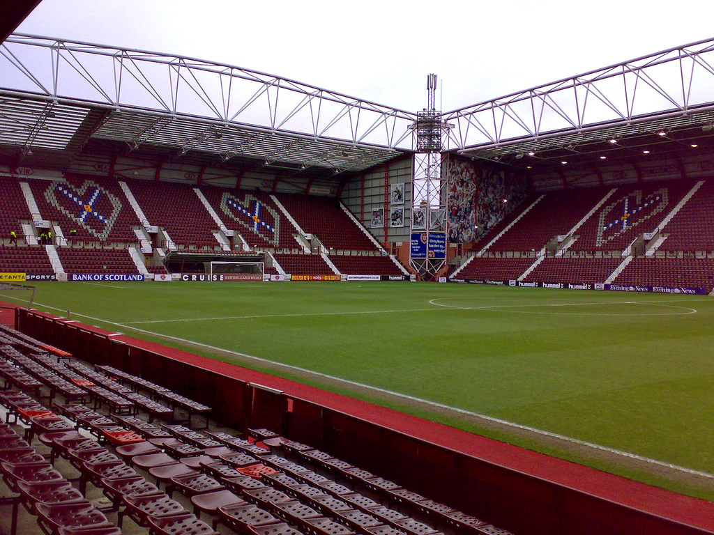 Tynecastle Stadium in February 2007